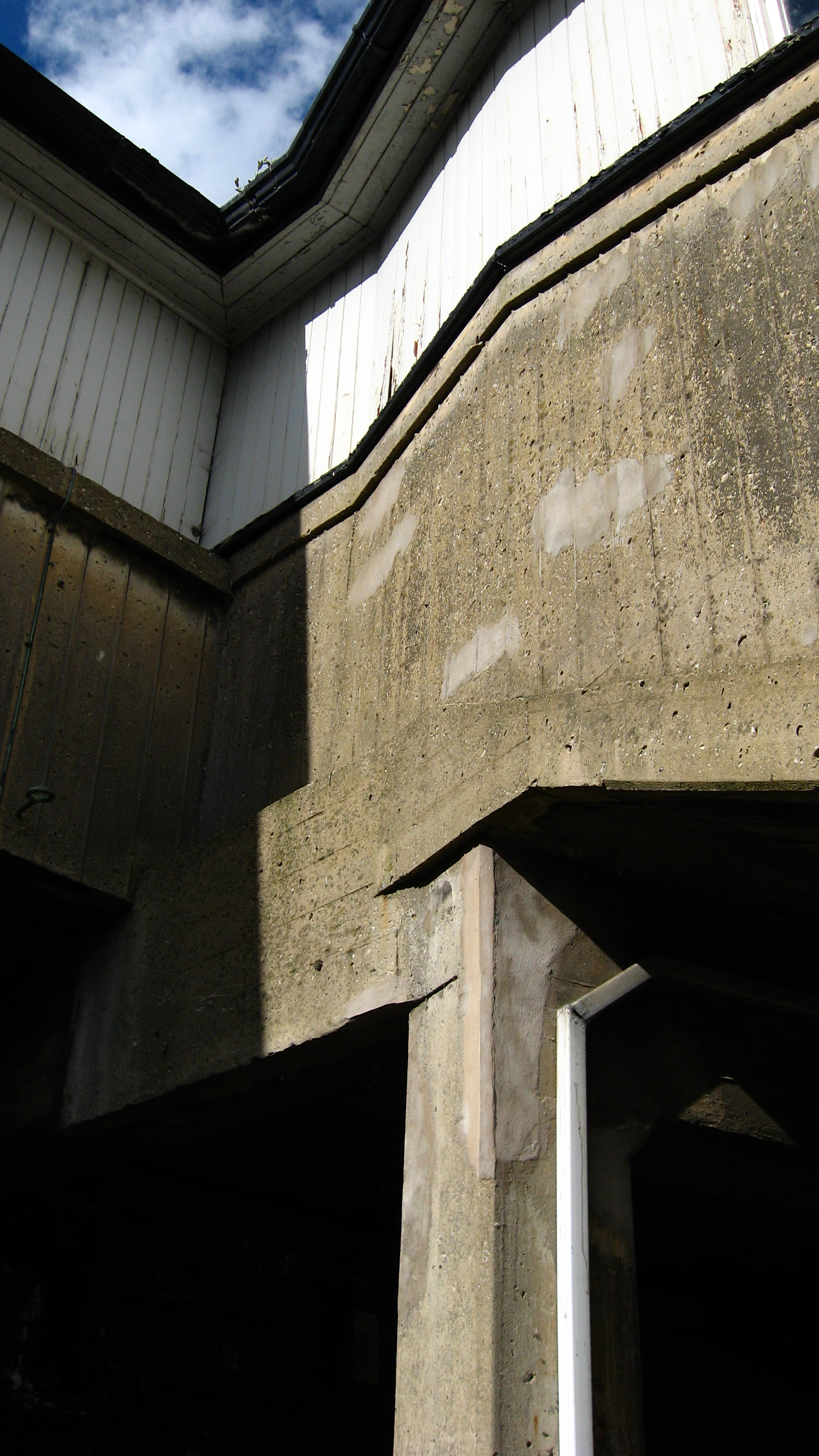 A concrete railway pedestrian overbridge, manufactured by the Vibrated Concrete Company of Croydon